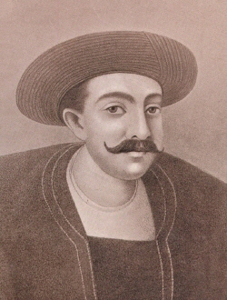 Babar Ali Khan